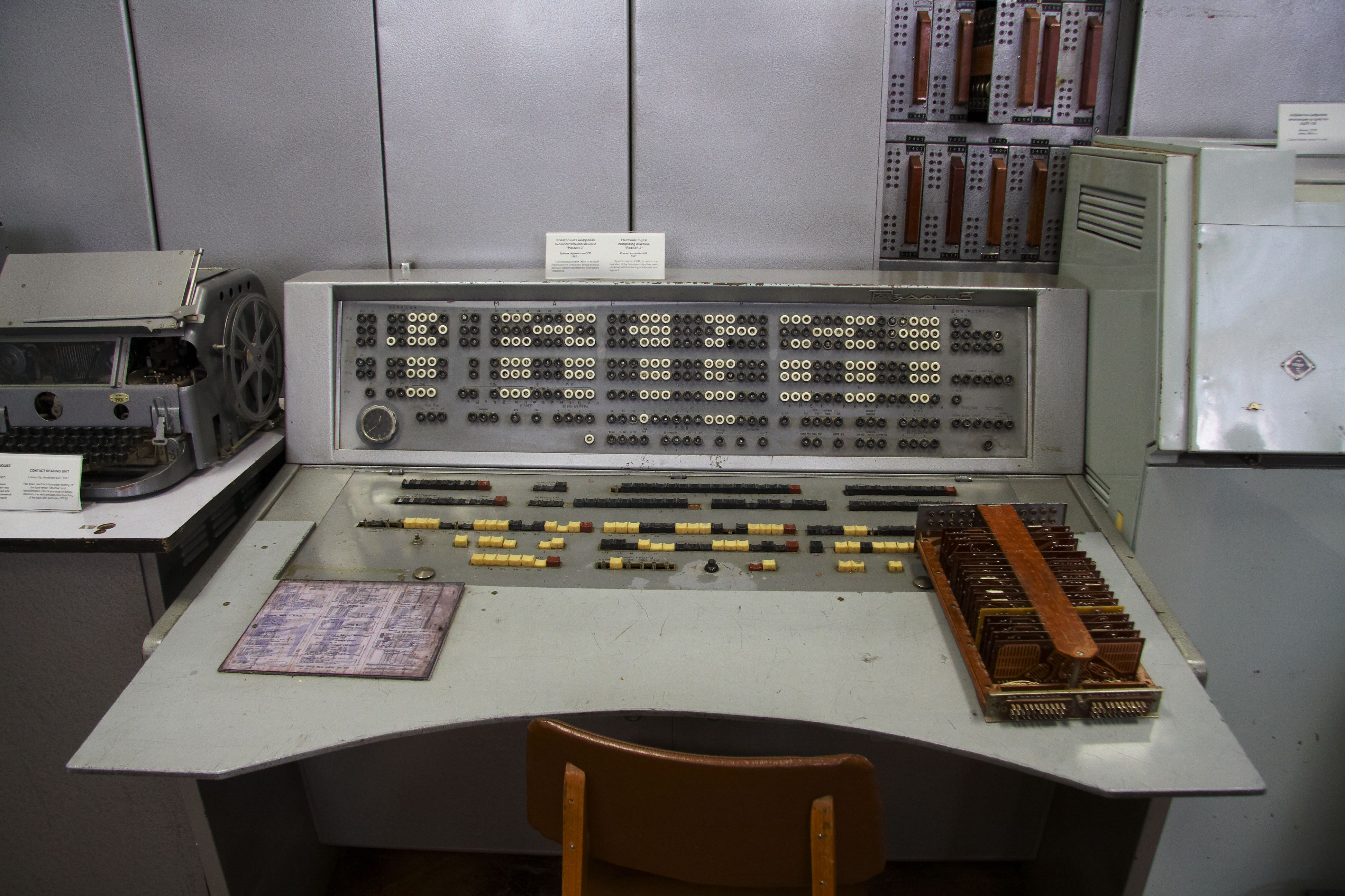 Razdan-3 Control Unit